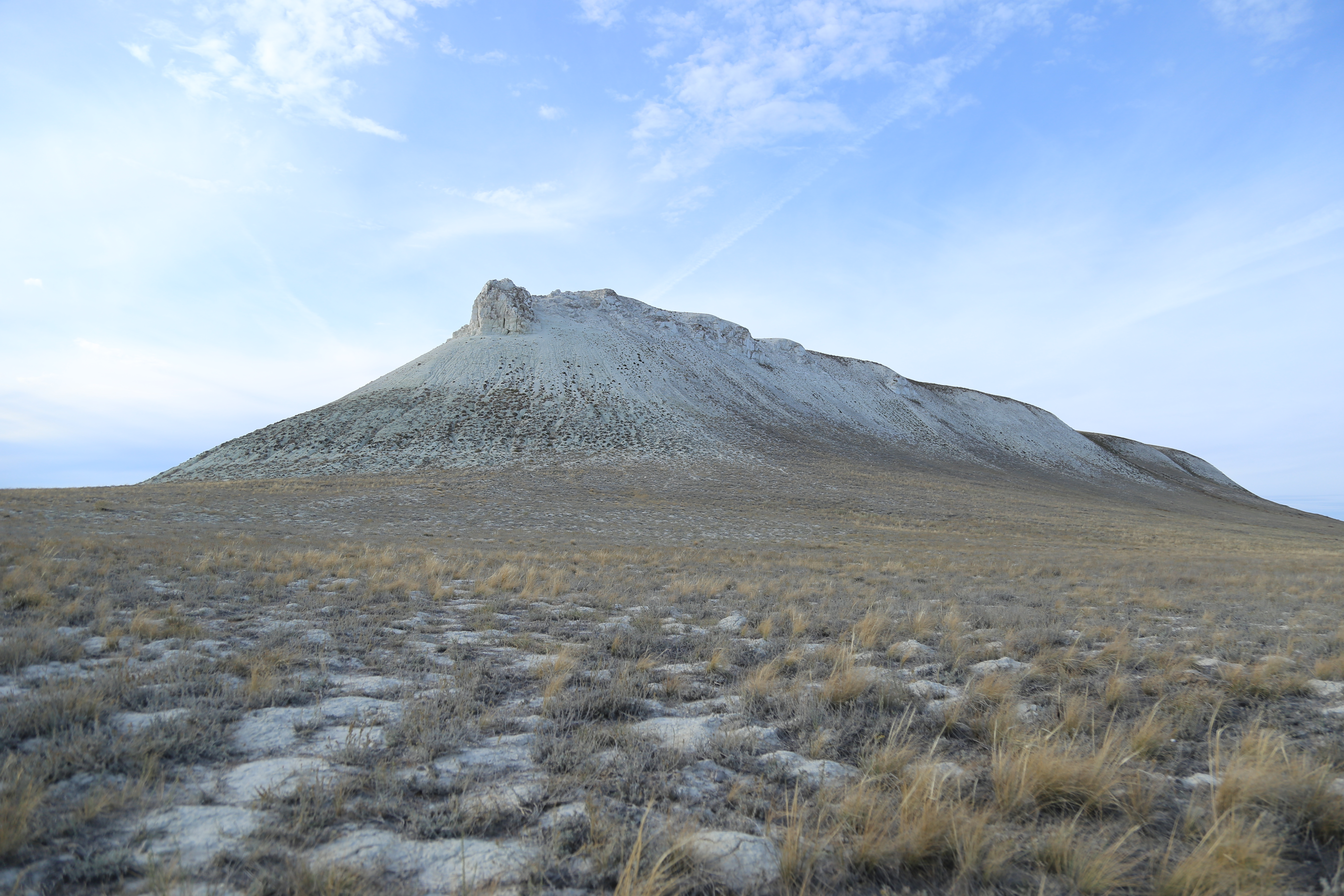 Toryatbas Mountain